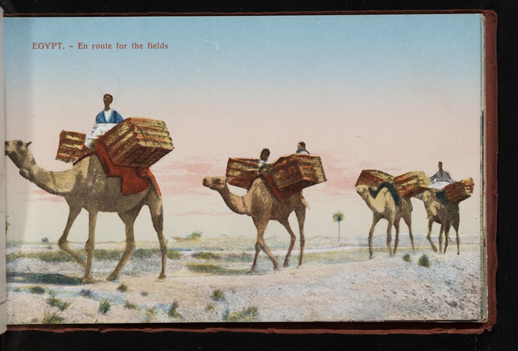 Four camels, full with hay, walk along a dirt road